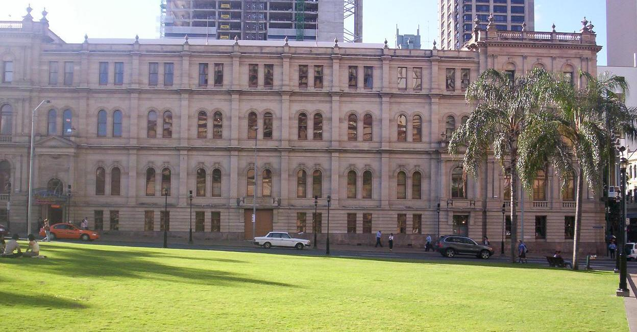 The old Treasury Building, Elizabeth Street, Brisbane ( this photograph was taken by Figaro )